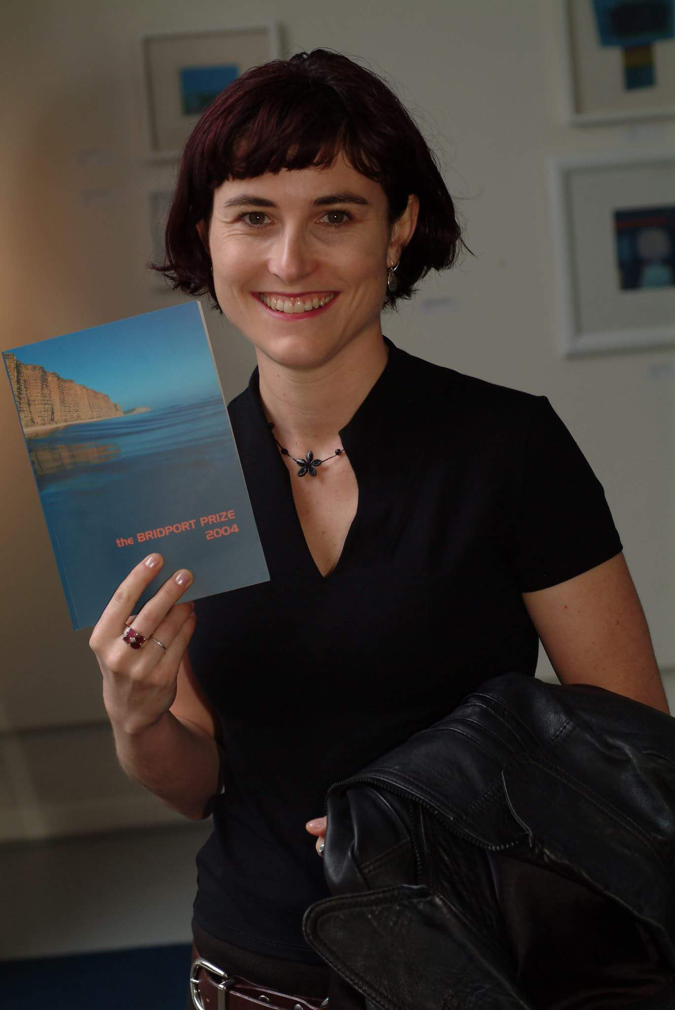 Laura Solomon in London after winning the Bridport Prize in 2004